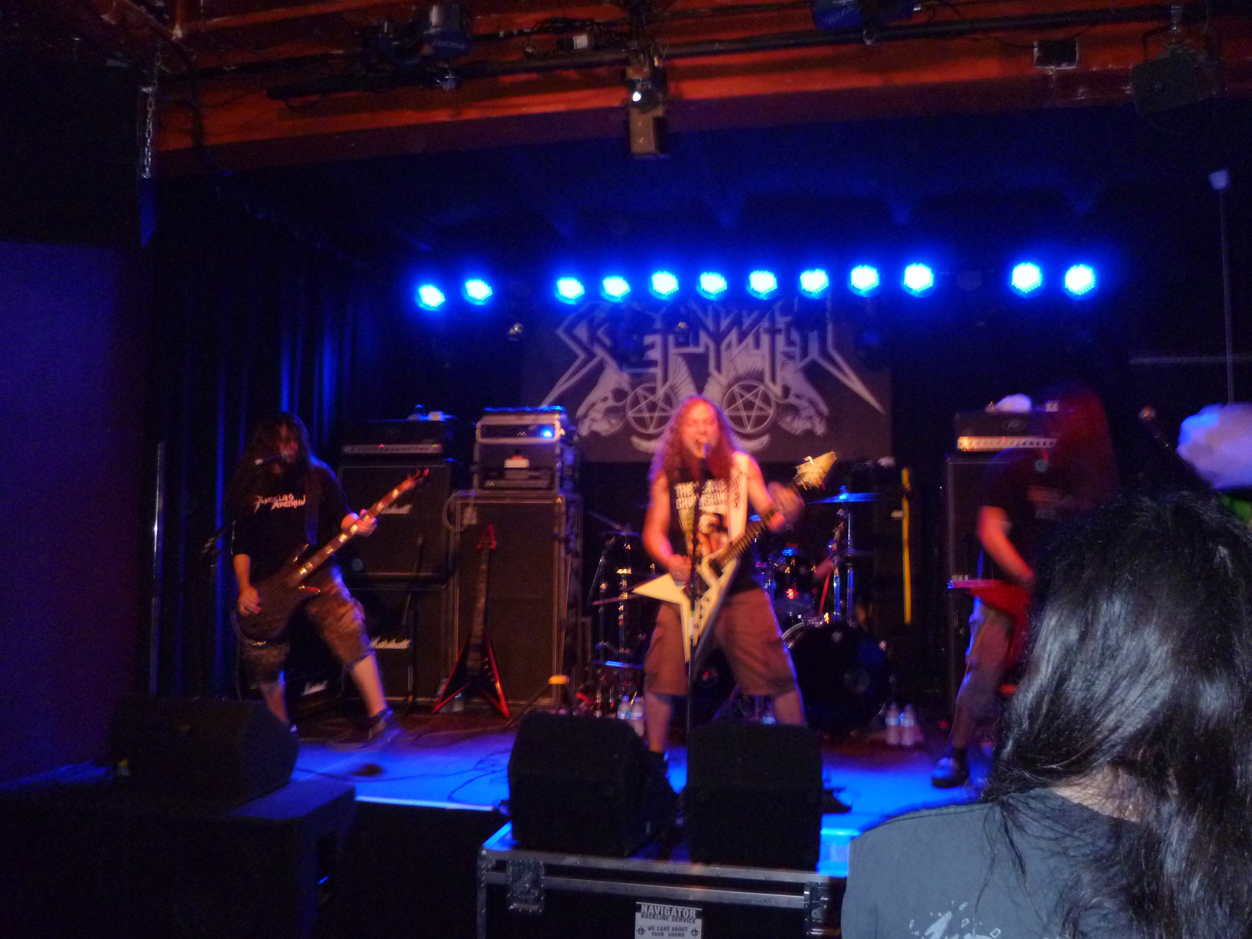 Angelus Apatrida live at the Kleine Klub Saarbrücken